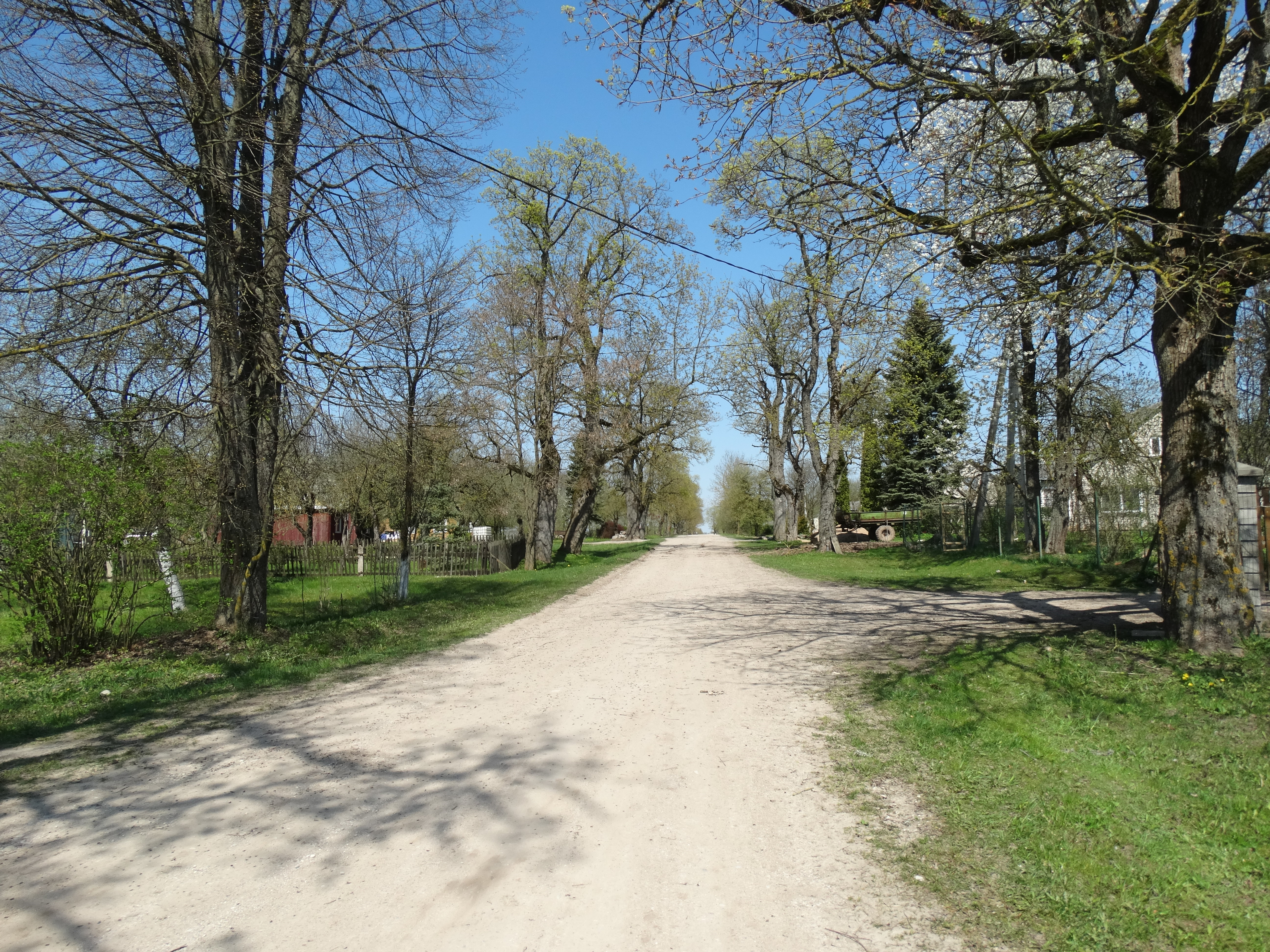 Liukonys, Širvintos District, Lithuania